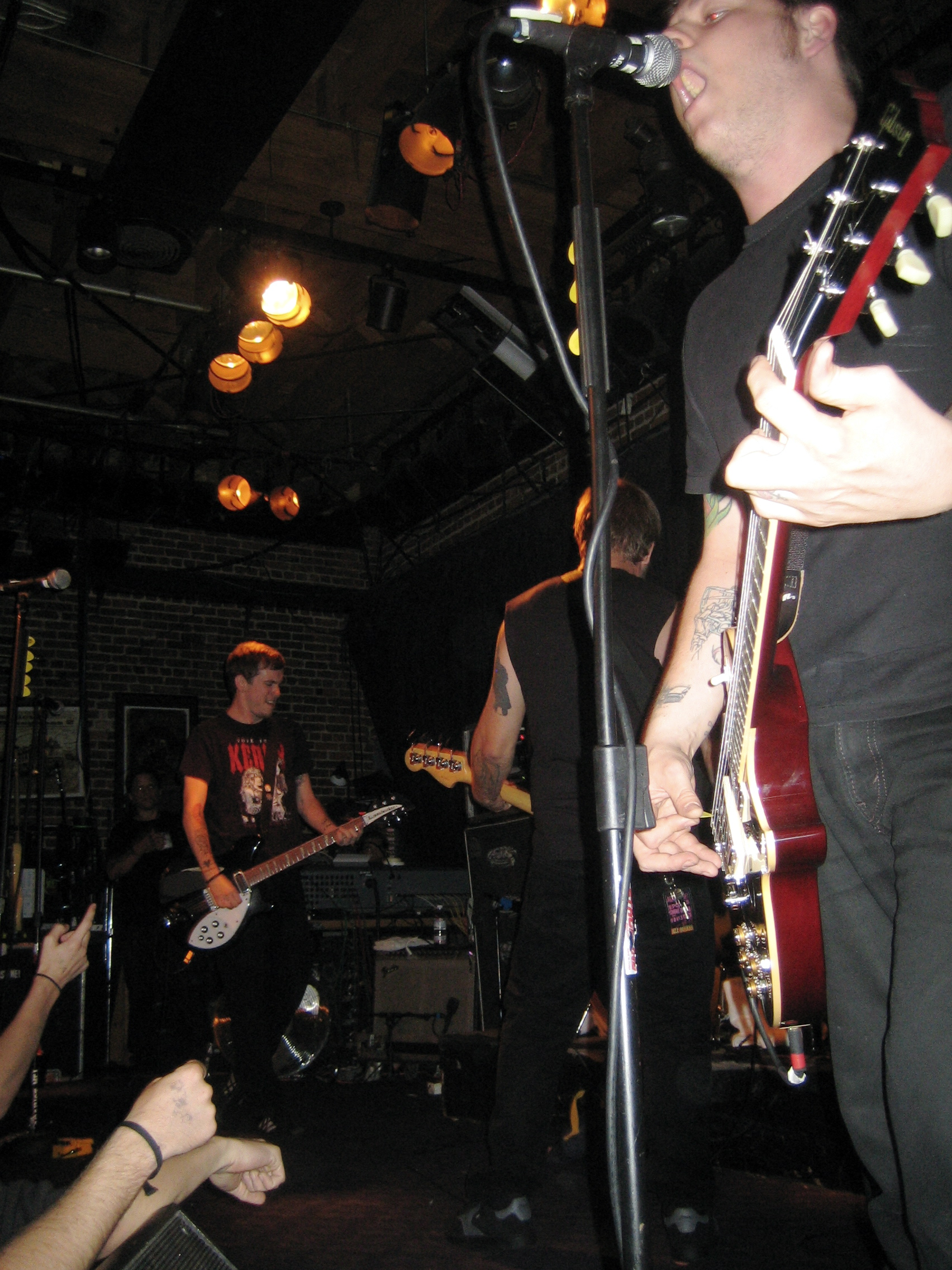 photo from flickr